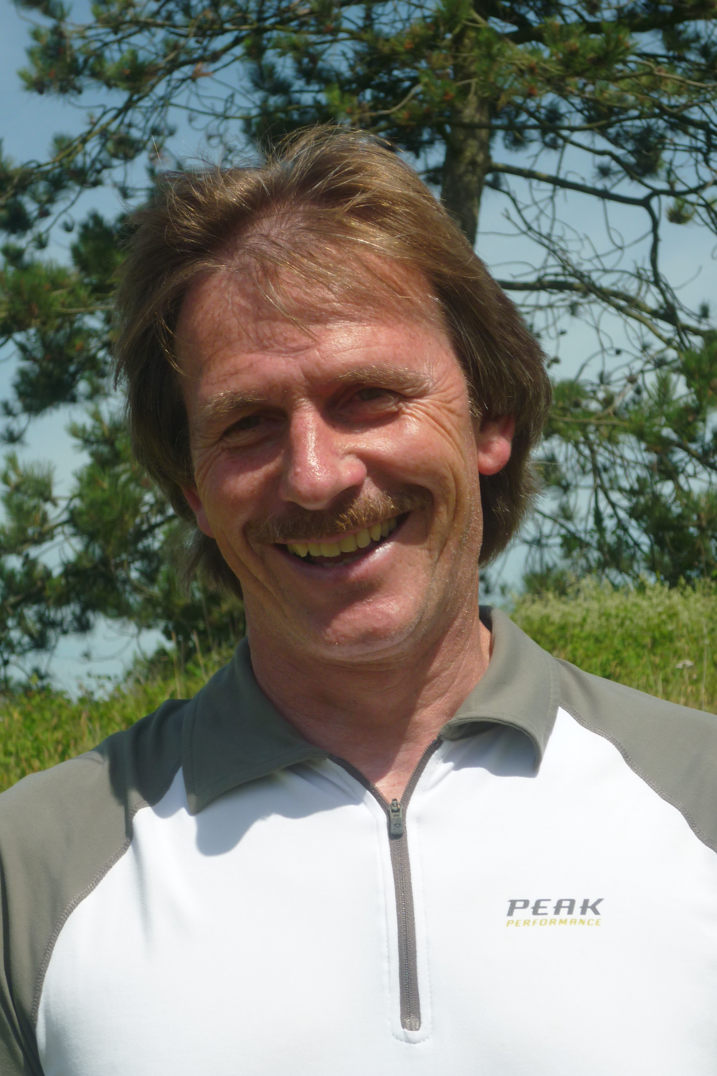 George Ryall at Dutch Senior Open